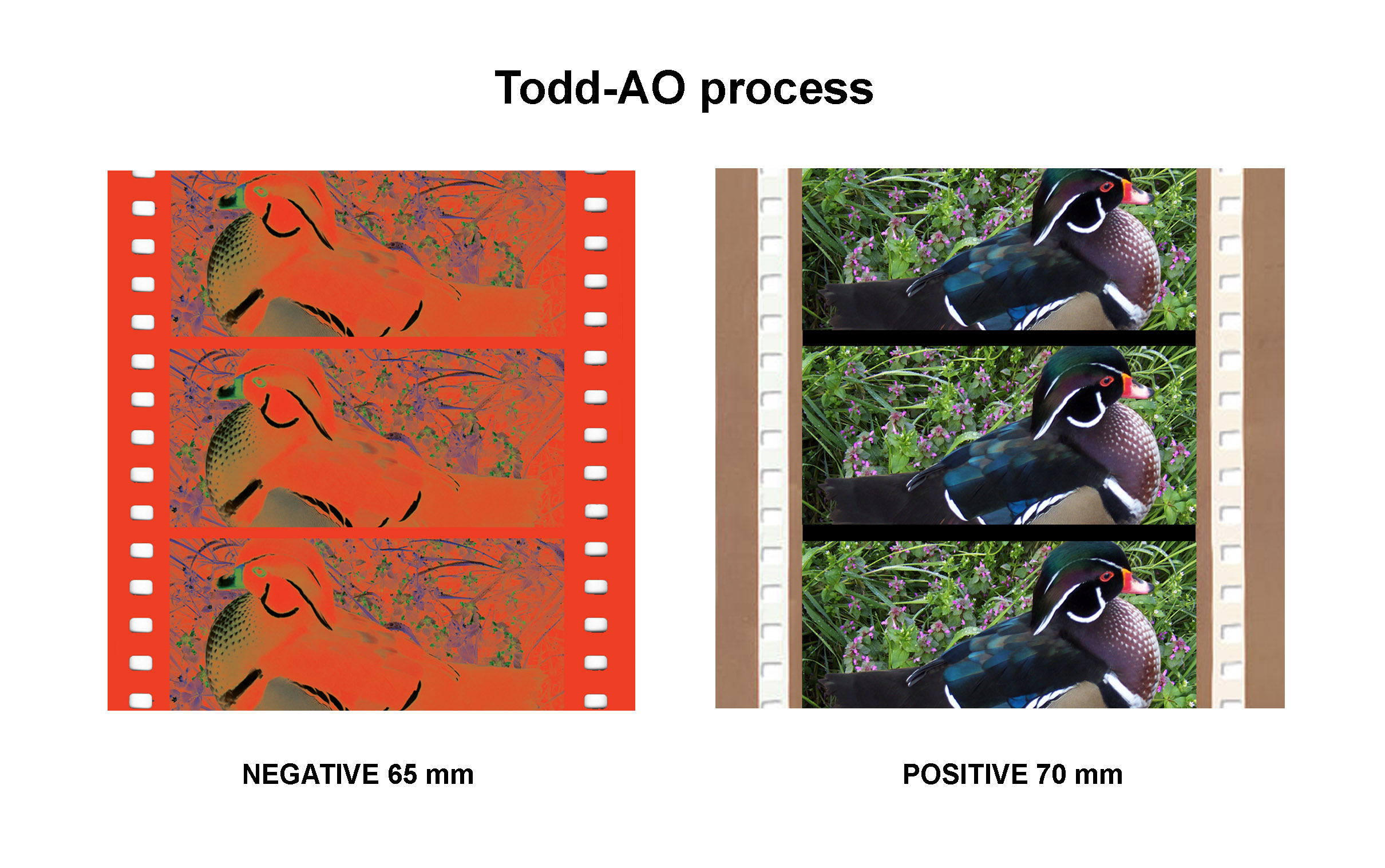 Negative and positive in Todd-AO widescreen film process.